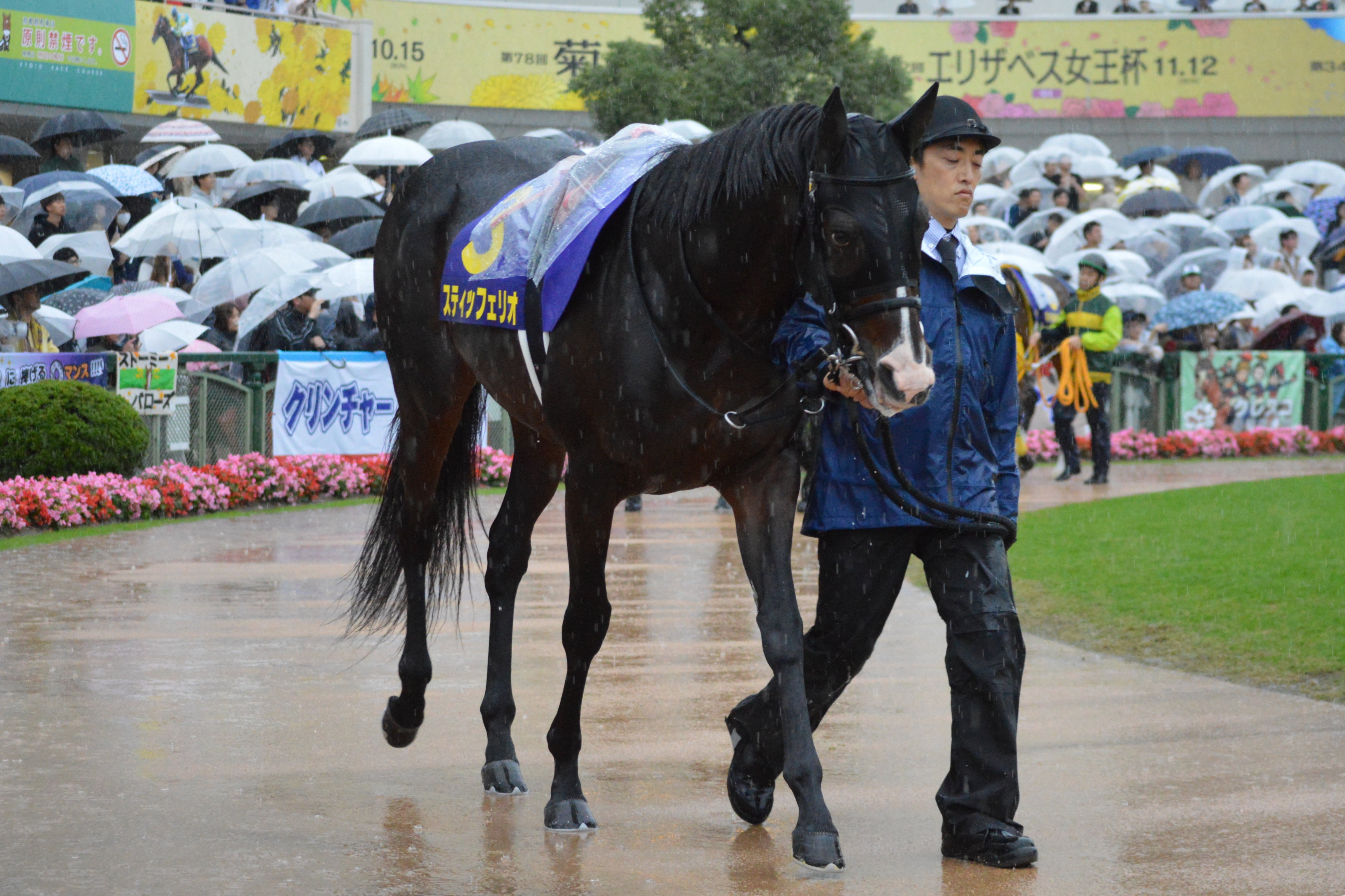 Japanese race horse Stiffelio at Kyoto racecourse. Kyoto (JPN) 22 Oct 2017Kikuka Sho (Japanese St.Leger) (Grade 1) (3yo Colts & Fillies) (Turf) 1m7f Soft RankHorse NameOddsAgeWgtTrainerJockey1st Kiseki (JPN)7/2FC39-0Katsuhiko SumiiMirco Demuro14thStiffelio (JPN)226/10C39-0Hidetaka OtonashiFuma MatsuwakaOthers are omitted. (15 horses entered in a race.)